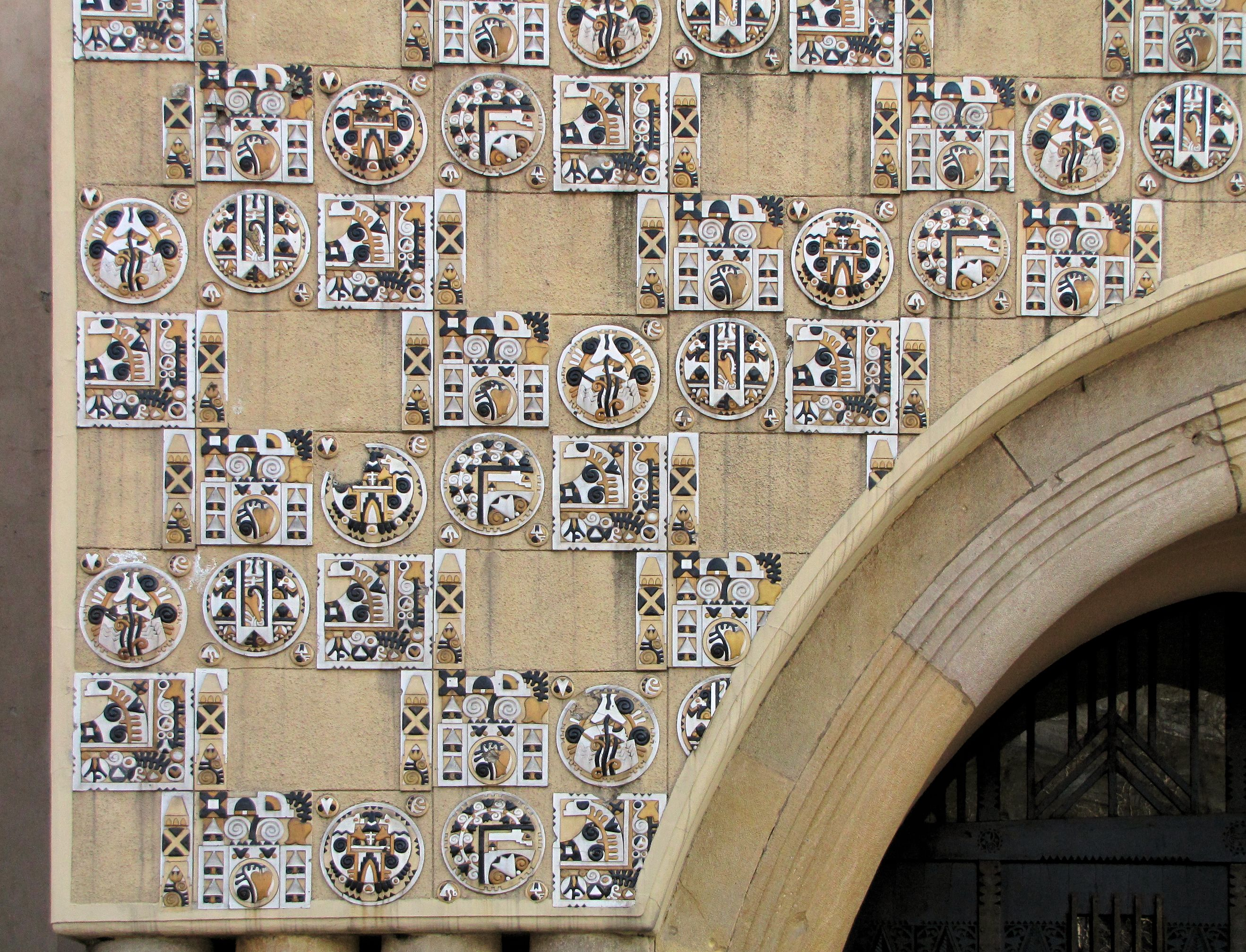 'Fasori' Reformed Church, Budapest 7th district, Városligeti fasor. Architect: Aladár Árkay.